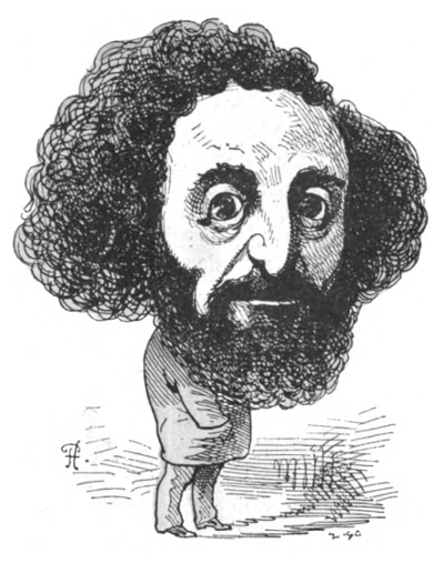 French chemist and politician Alfred Naquet (1834-1916) by Georges Lafosse (1844-1880)